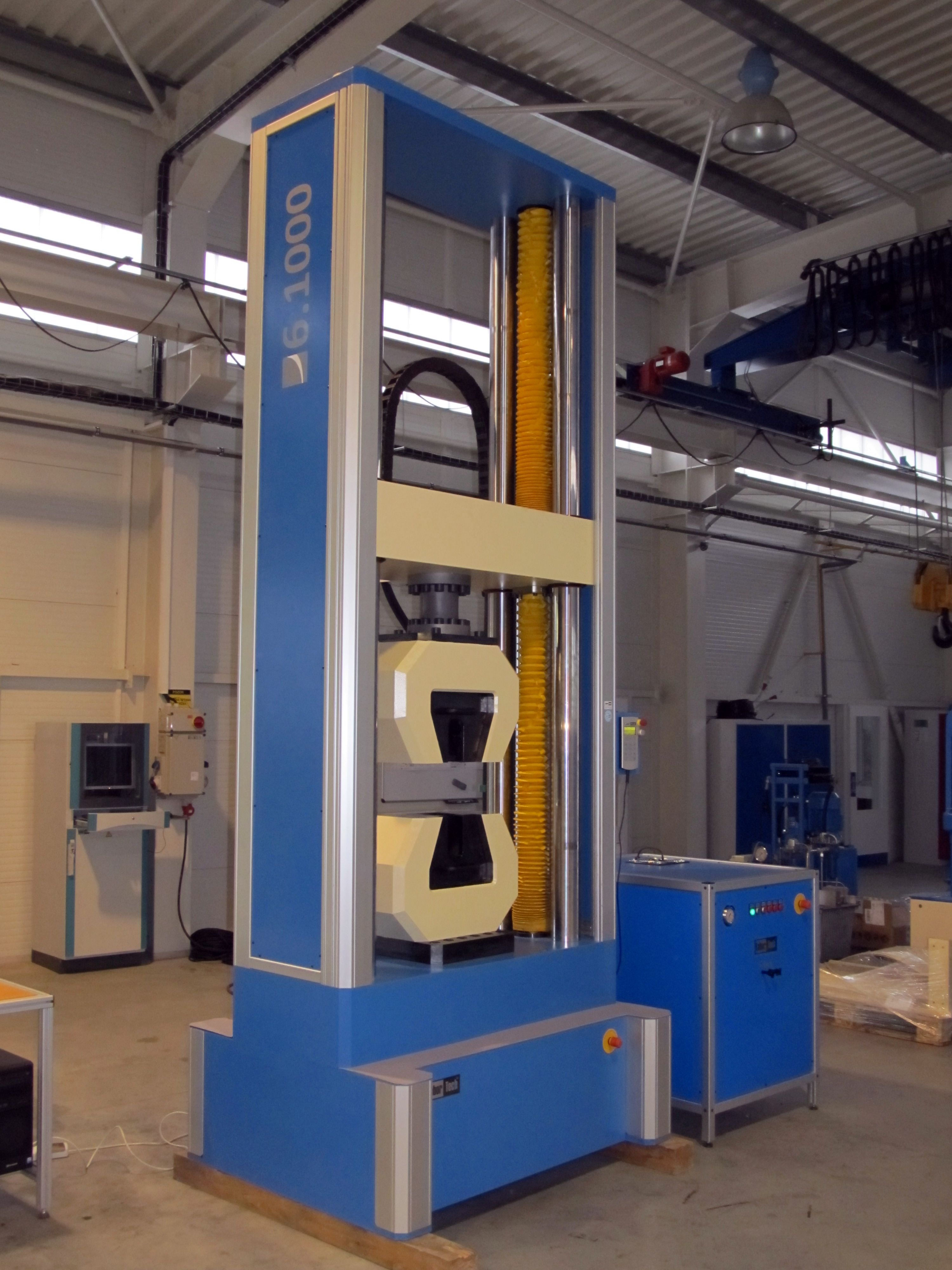 Przykładowa maszyna wytrzymałościowa LaborTech